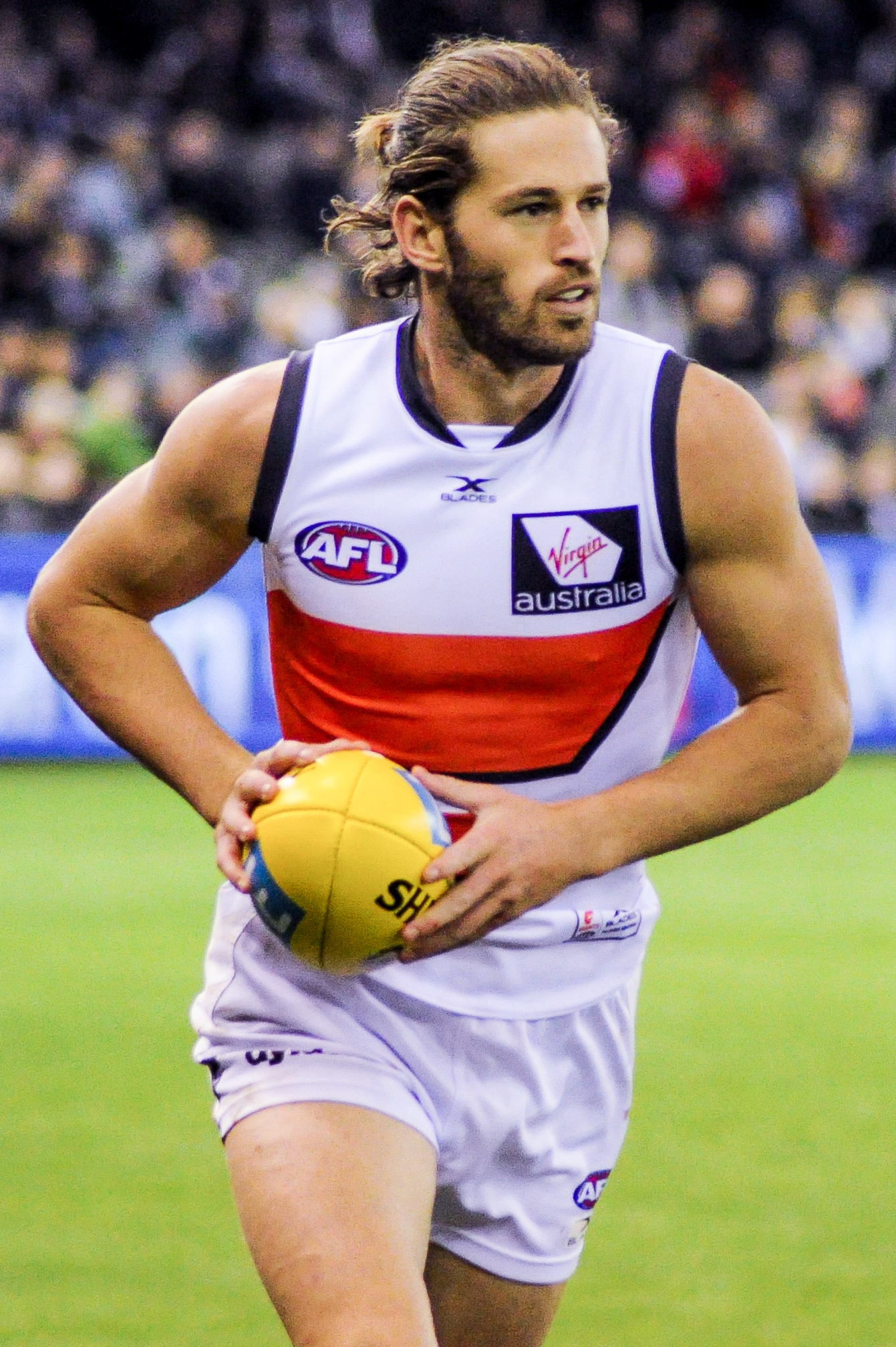 Callan Ward during the AFL round twelve match between Carlton and Greater Western Sydney on 11 June 2017 at Etihad Stadium in Melbourne, Victoria.